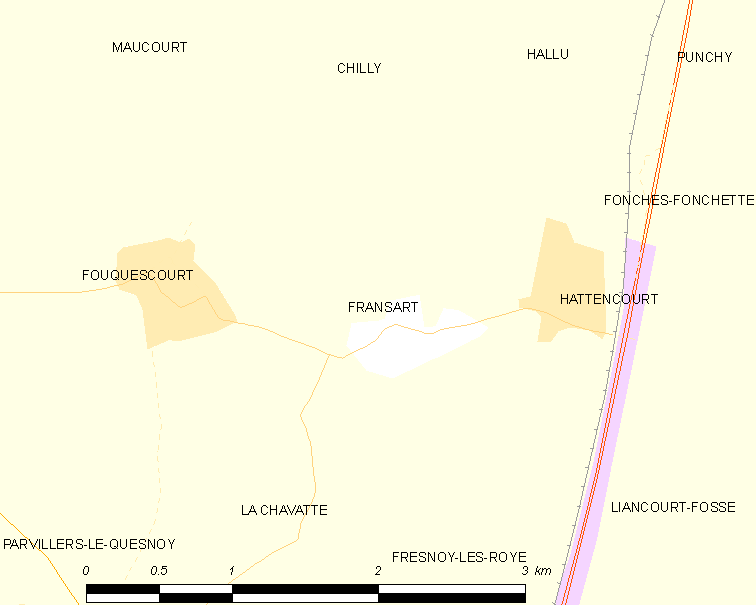 Map of French municipality Fransart